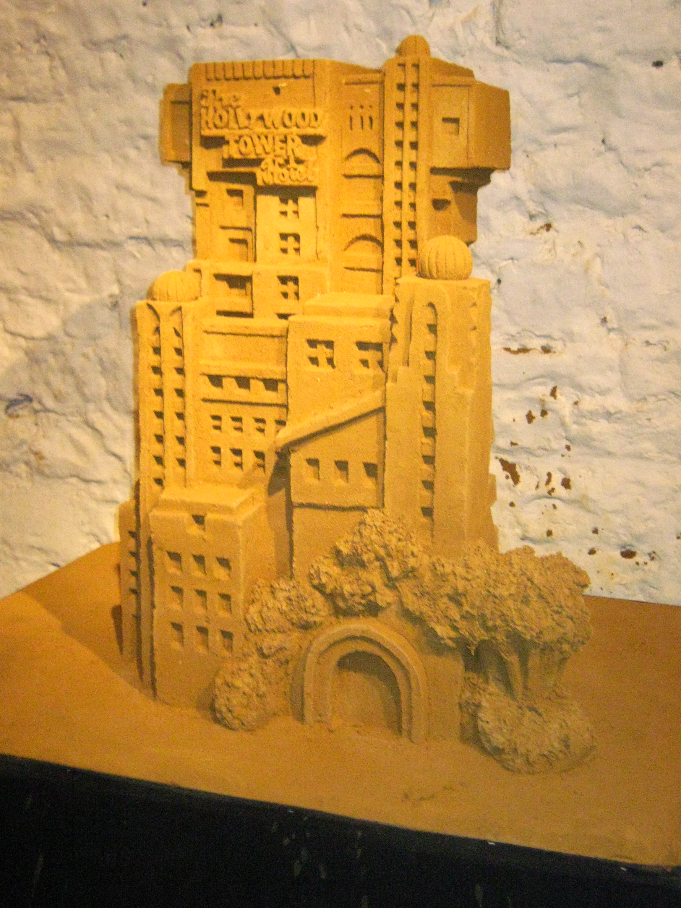 A sculpture made of magic sand.